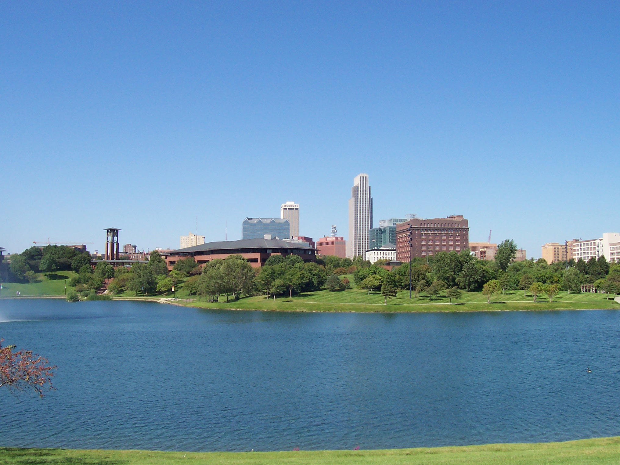 Picture taken by me